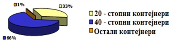 Учешће 20-стопних И 40-стопних у укупном броју контејнера (2002 година